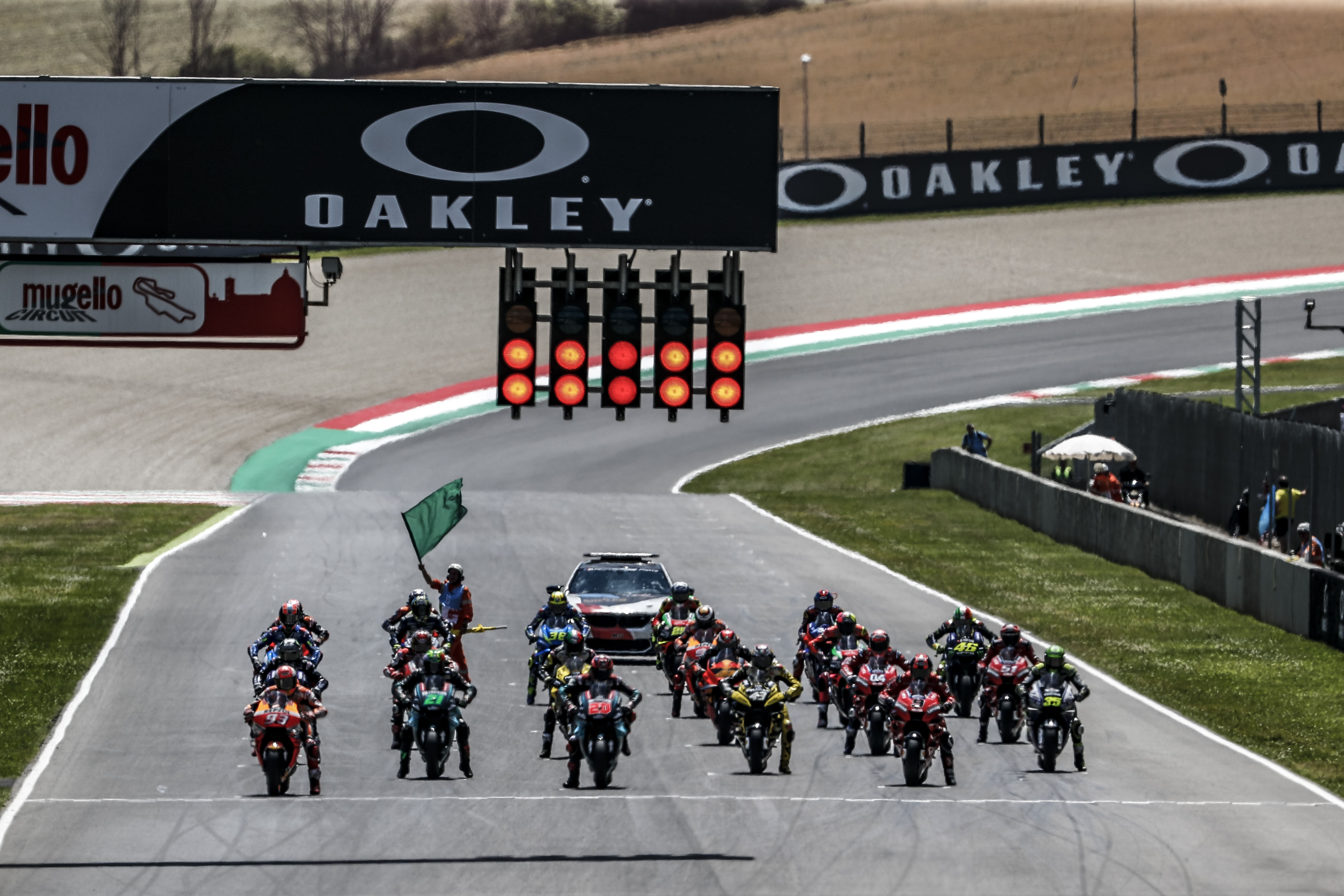 The starting grid of the 2019 Italian Grand Prix, with Marc Márquez on pole position to the left.